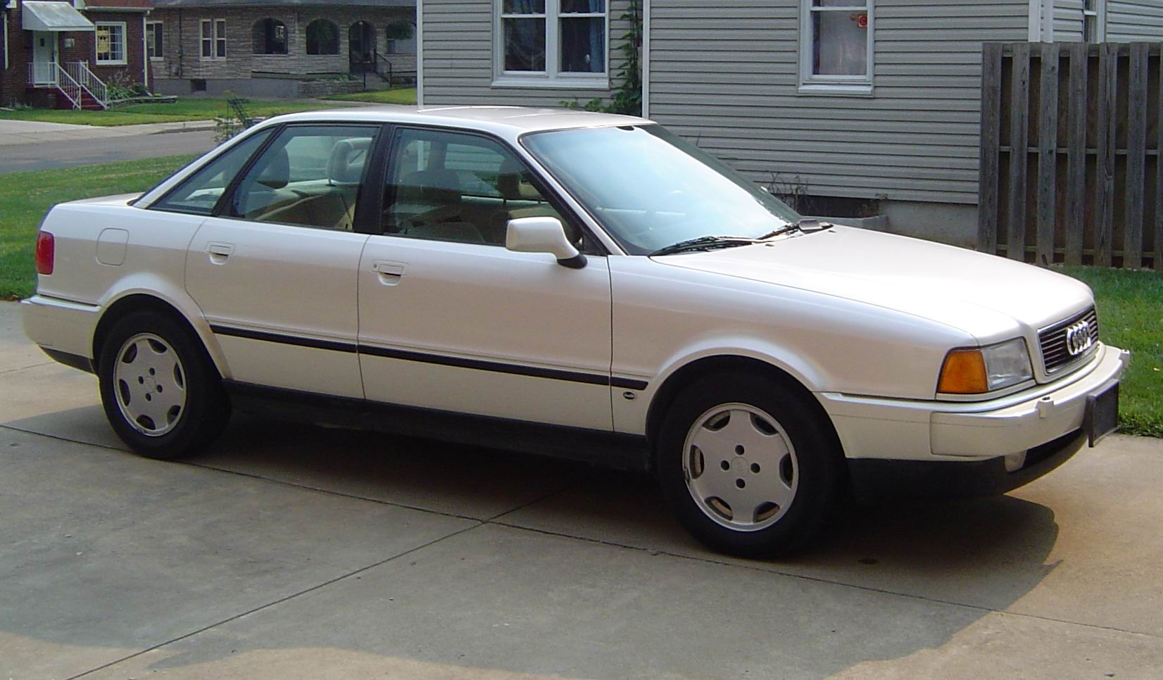 Picture Taken By Corey Lewis